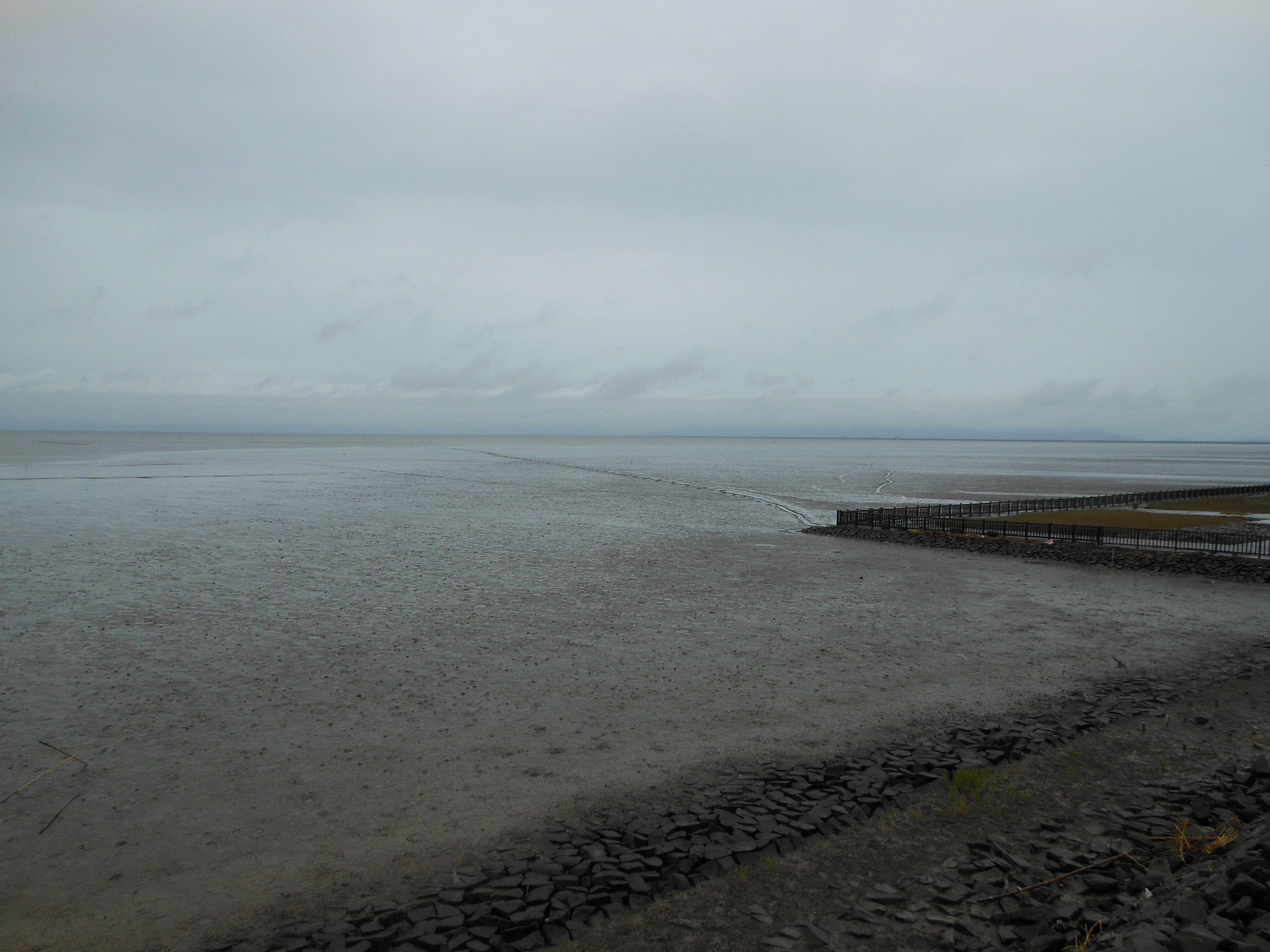 Mudflats of Higashiyoka Coast. It is designed a Ramsar site.